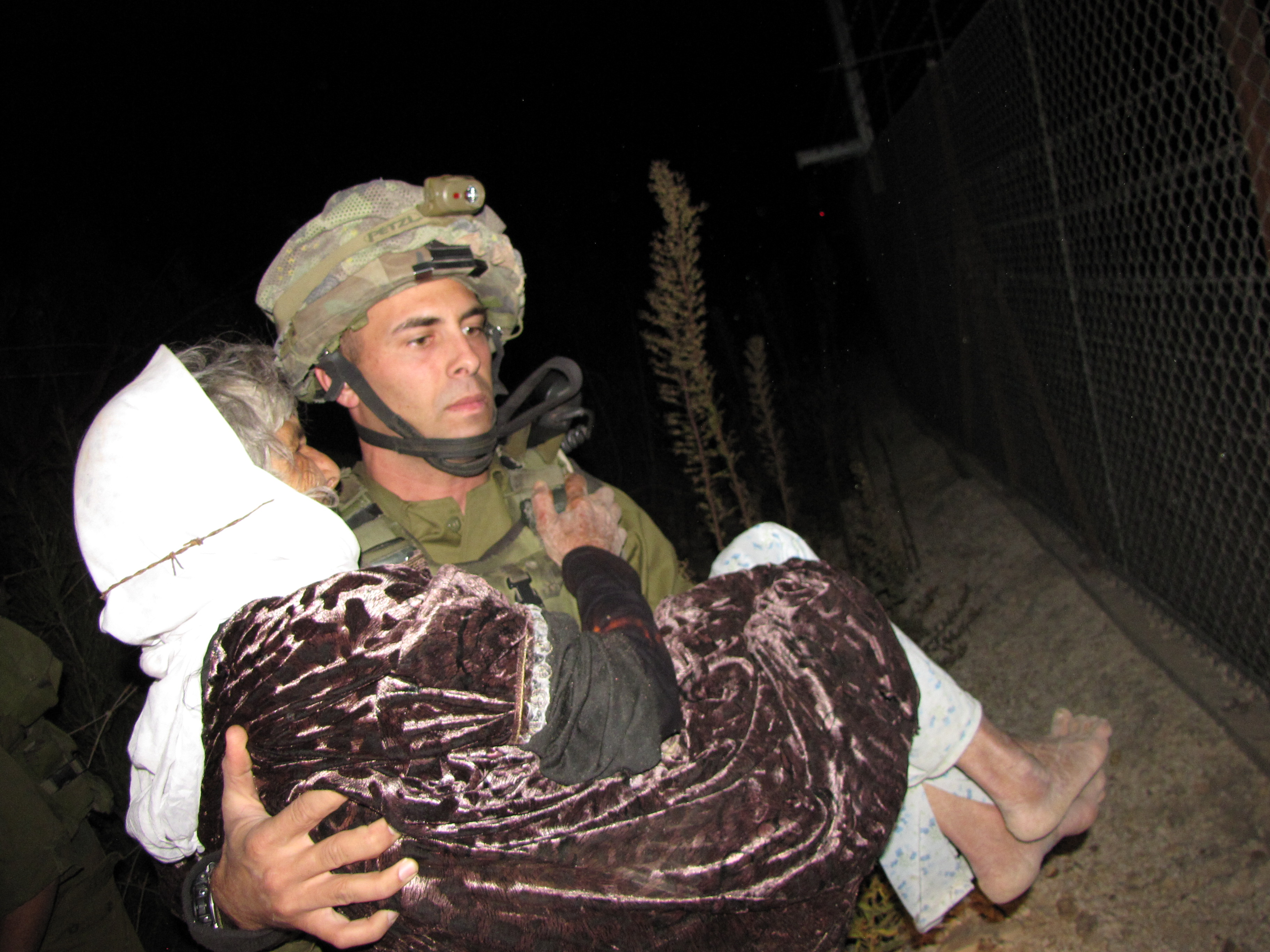 November 13, 2010. IDF soldiers rescued an eighty year old Lebanese woman after she got tangled in the security fence on the northern border, on the Lebanese side. The rescue was coordinated with UNIFIL forces present at the scene. The woman was returned to Lebanon through the Rosh HaNikra crossing and transferred to UNIFIL.